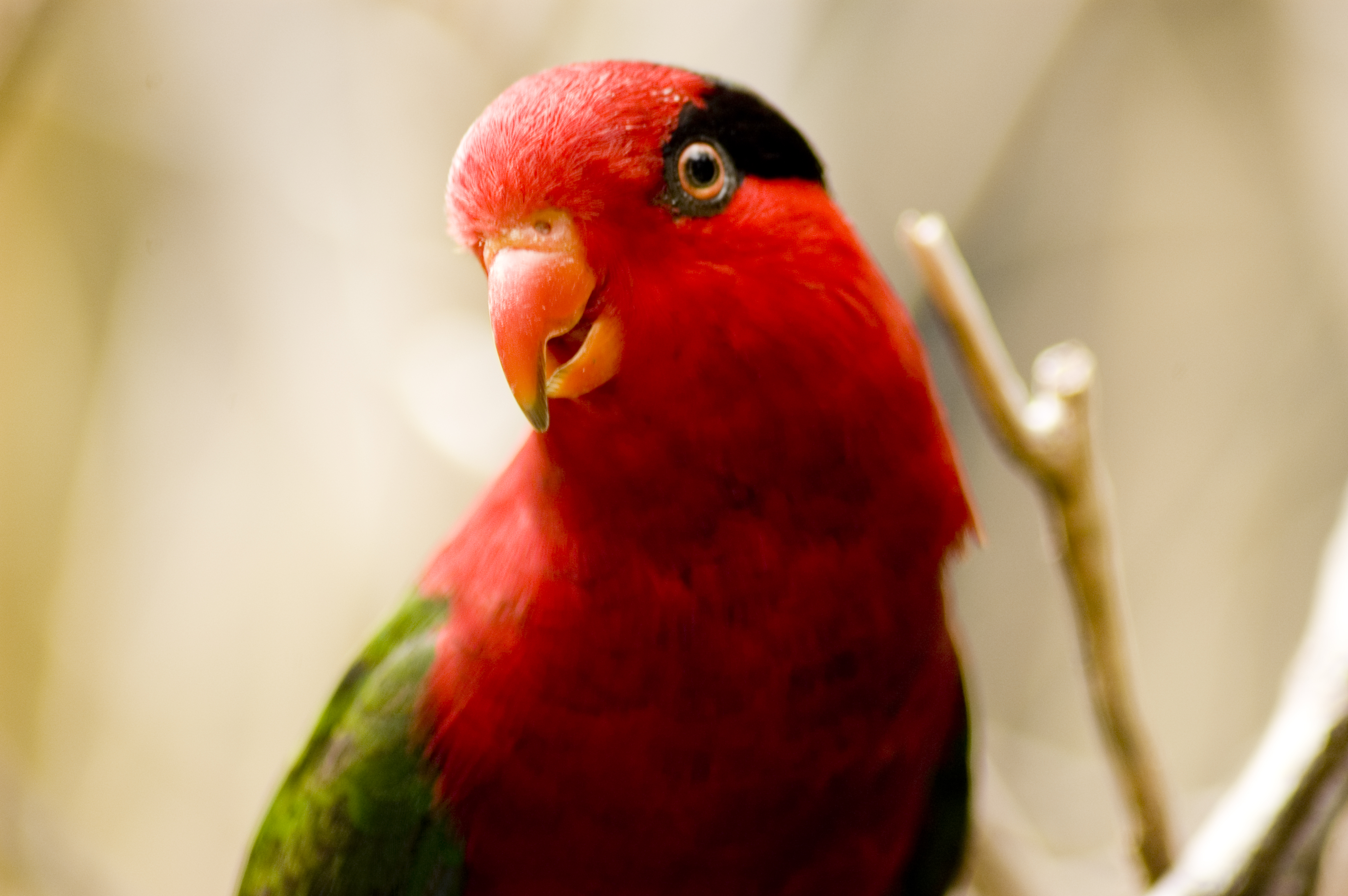 Papuan Lorikeet (Charmosyna papou) at Fort Worth Zoo, Texas, USA